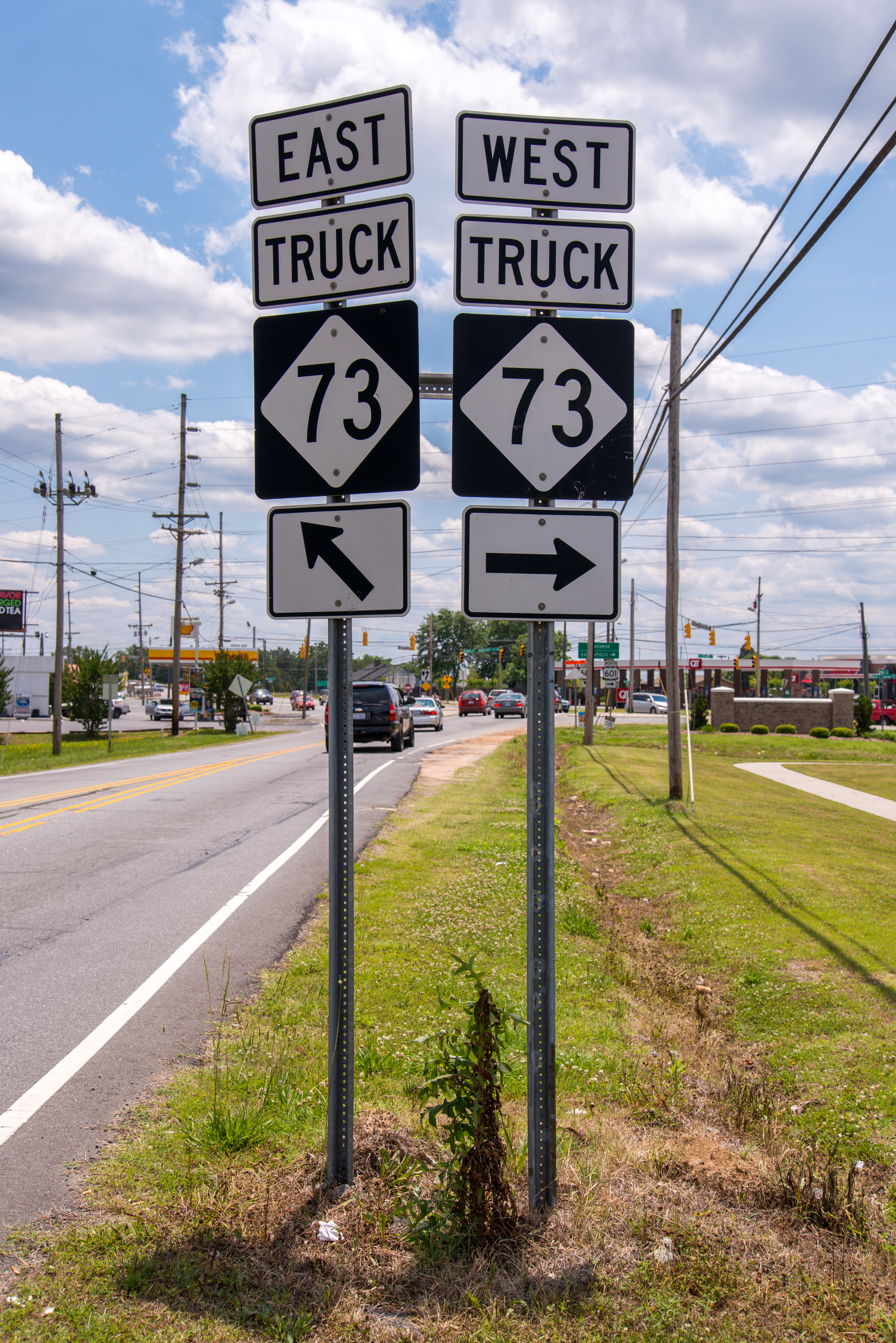 Directional NC 73 Truck route signs. Located at the south end of NC 3 (Union Street) before intersection with US 601 (Warren Coleman Boulevard), in Concord, North Carolina.